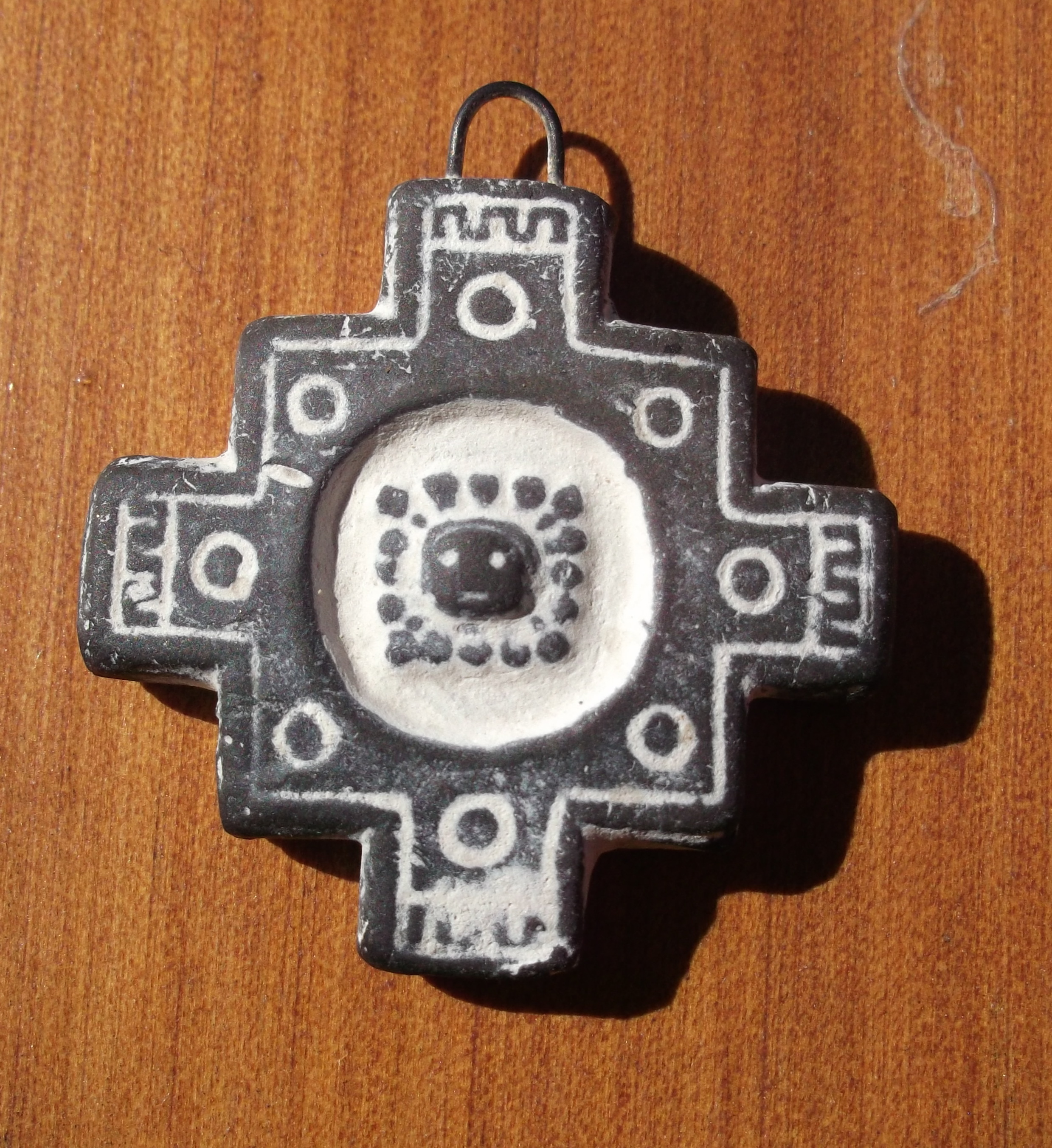 Chakana, indigenous crafts from province of Jujuy (NW of Argentina.) related with many South American cultures. Is made of polished soft stone and was buy in a street fair.